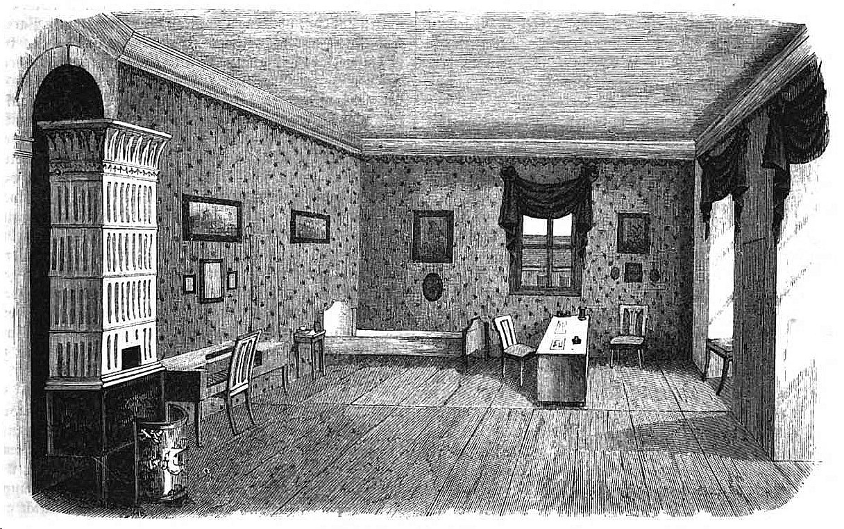 caption: "Schiller’s Arbeitsstube in Weimar."